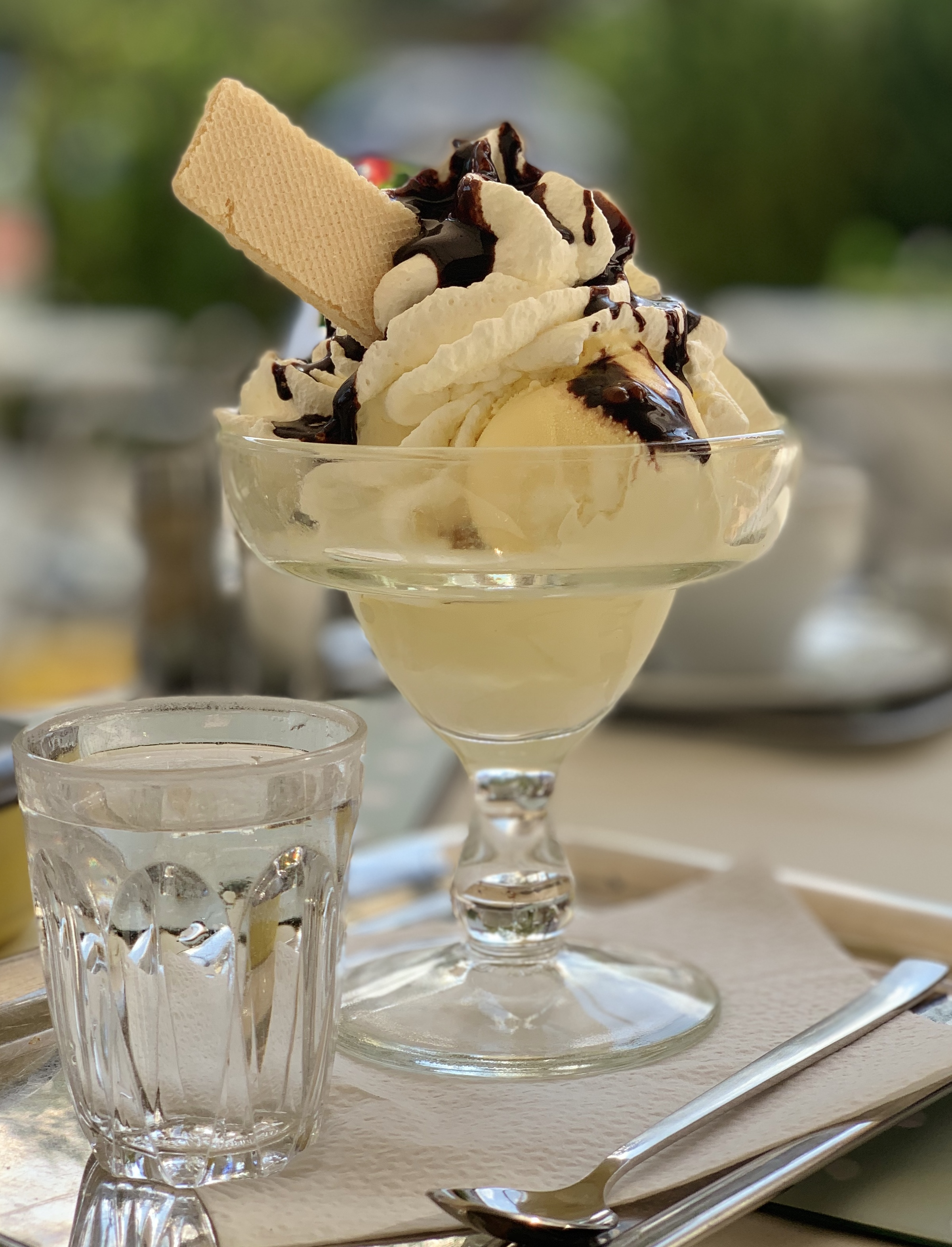 A cocktail glass of ice cream, with whipped cream, chocolate syrup, and a wafer